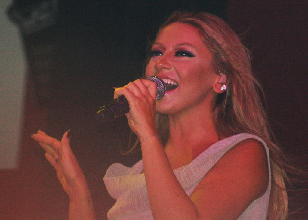 Hadise.